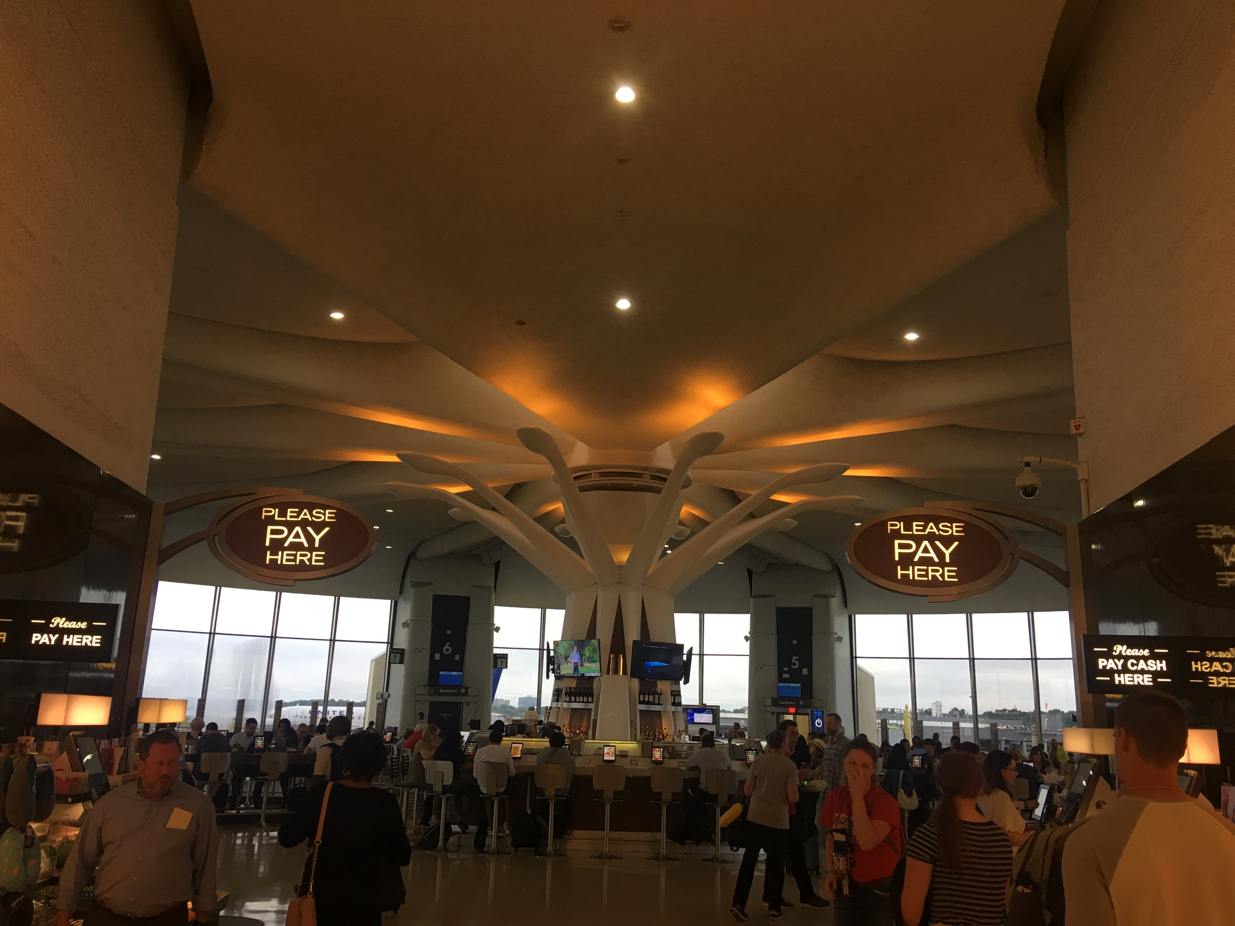 From a store corridor, Terminal A's unique central design can be seen, in addition to several gates.